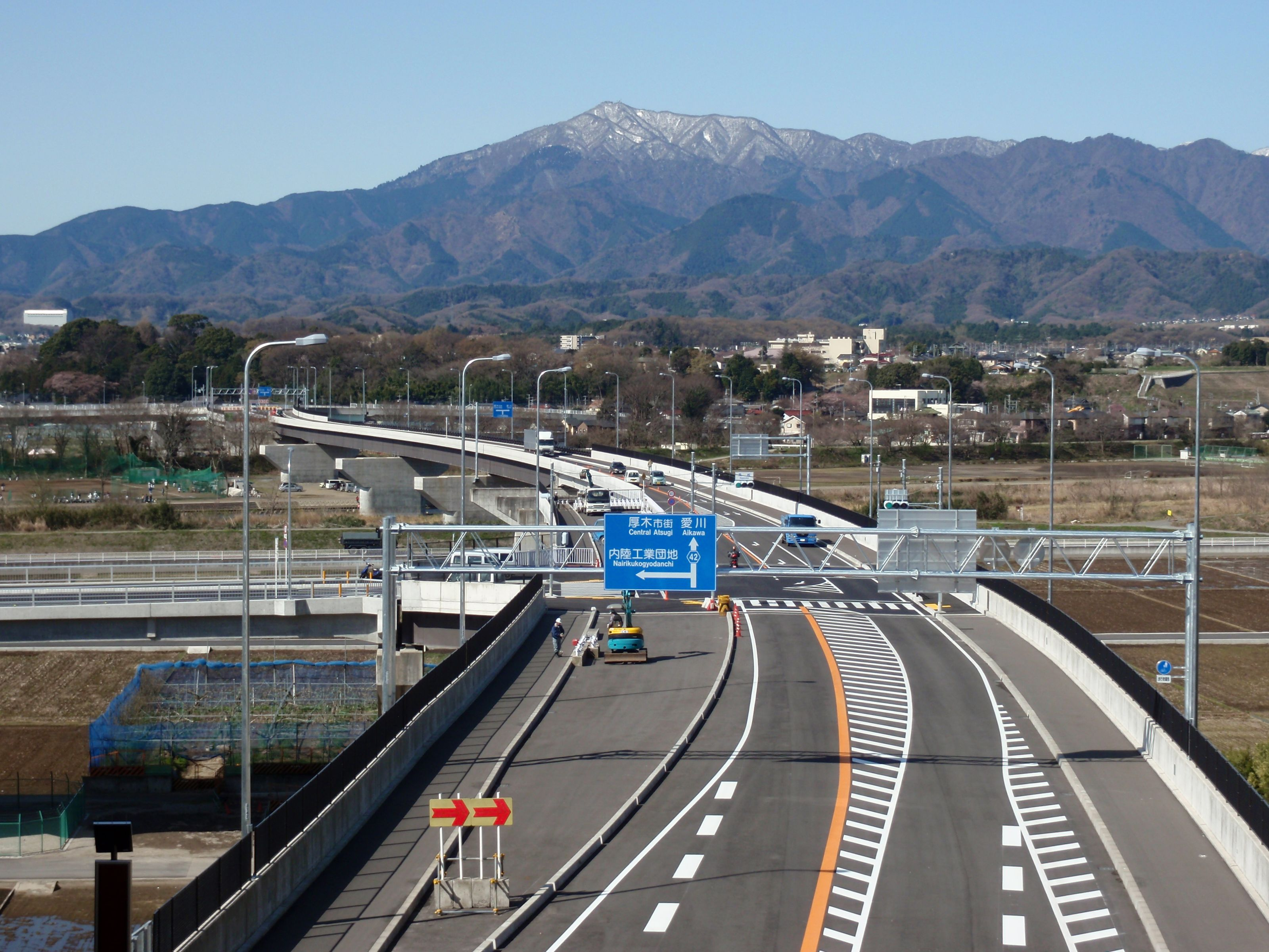 Kanagawa prefectural roads No.42 at Sekiguchi, Kanagawa